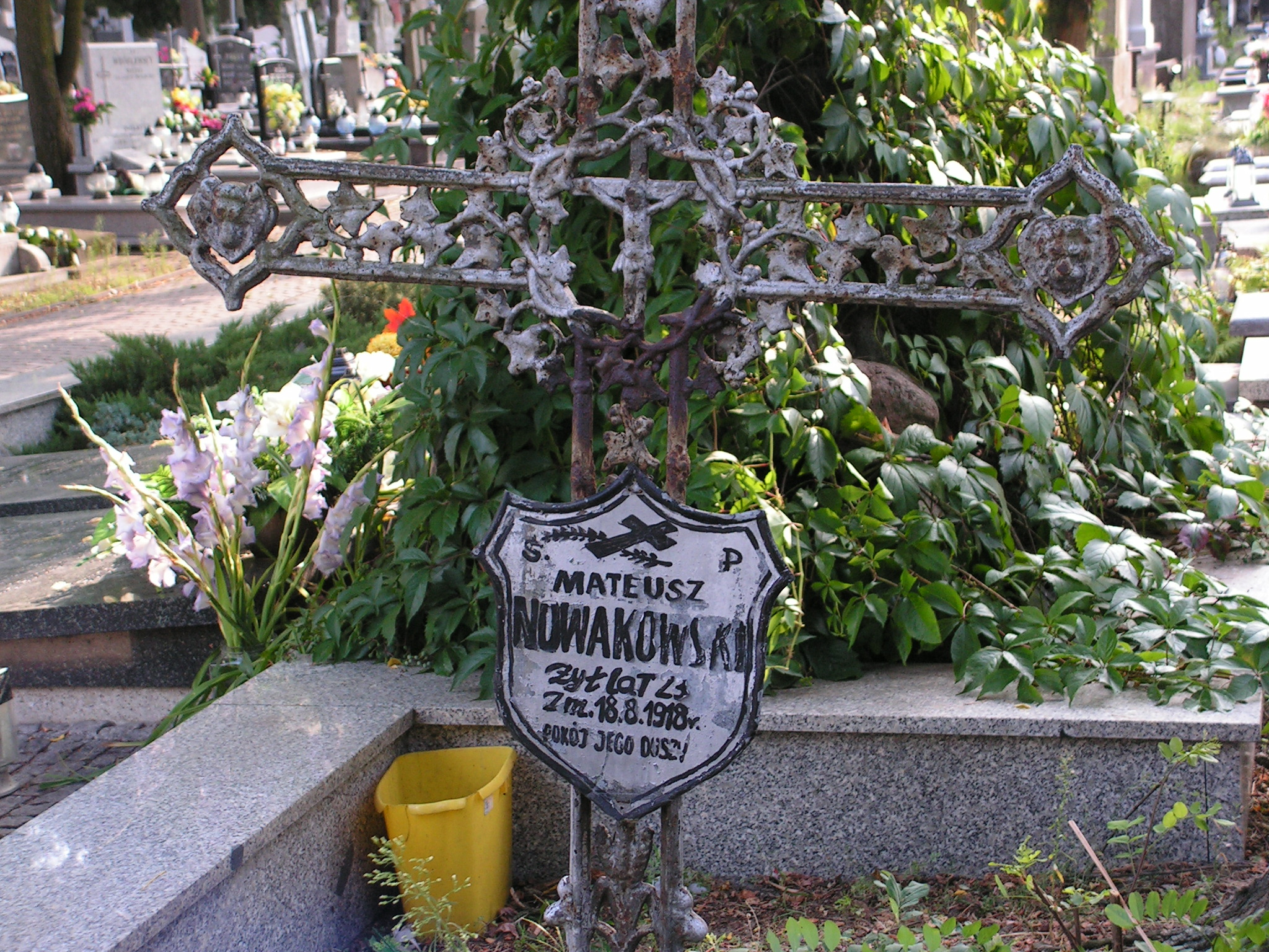 Detail of cross from Mateusz Nowakowski (1895-18.08.1918) grave on Communal Cemetery in Włocławek.